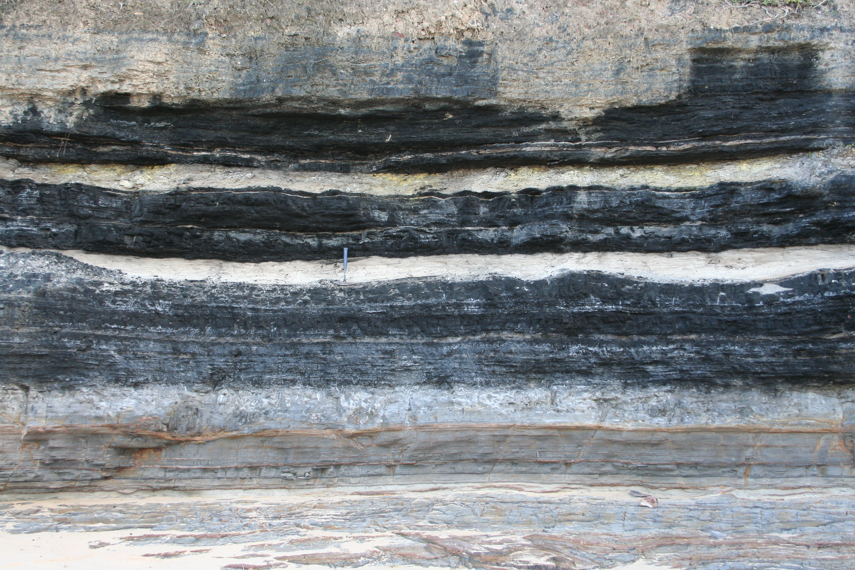 Tongarra Coal (Permian) exposed at Austinmer Beach, New South Wales.